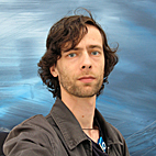 Moritz Waldemeyer portrait